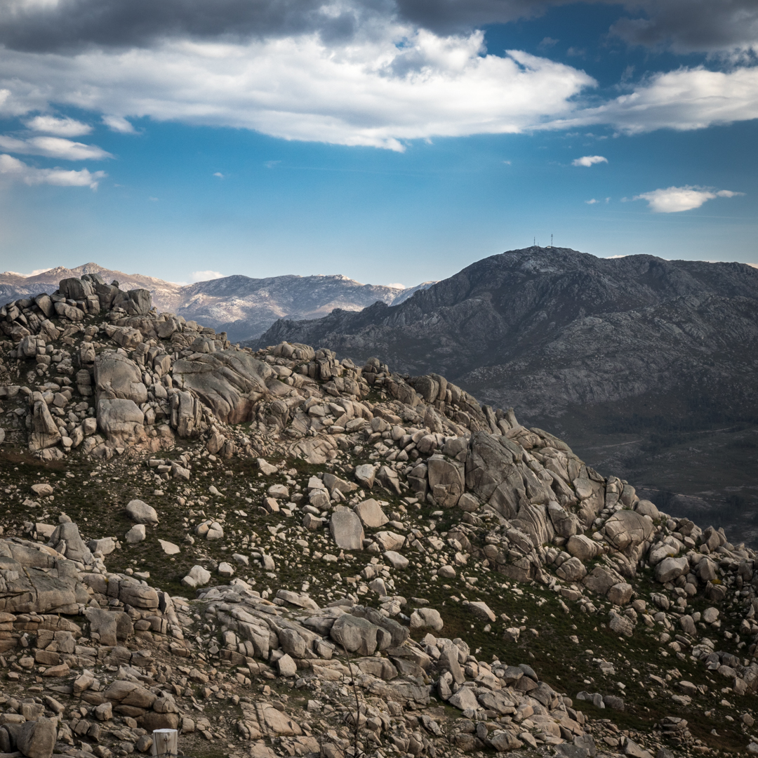 foreground Serra do Xurés and background Peneda do Gerês National Park This is a photography of a Special Area of Conservation in Spain with the ID: ES1130001. Natura2000 entry, EEA entry